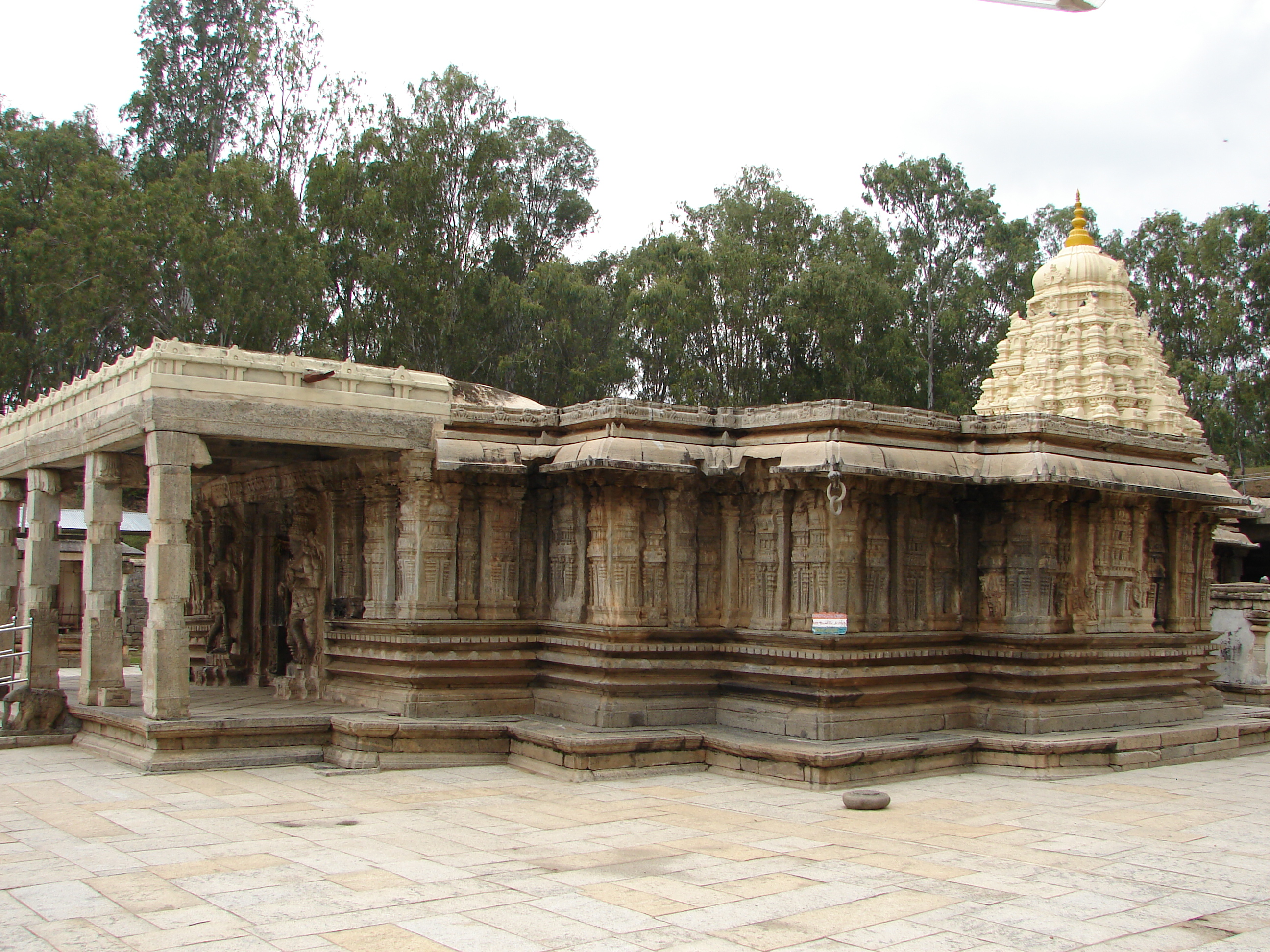 This photograph was taken by me at the Vaidyeshvara temple (also spelt Vaidyeshwara) in Talakad (also pronounced as Talkad, Talakadu), Mysore district, Karnataka state, India. The construction of this temple was undertaken by the The Western Ganga dynasty of Talakad in the 10th century. Later renovations and additions were done by the Cholas and Hoysalas up to the 14th century